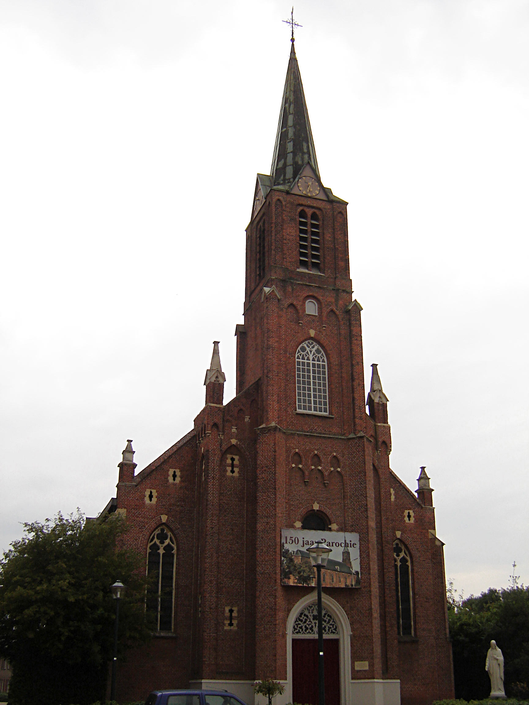 Church of Saint Gerulph in Vogelwaarde (Stoppeldijk part). Vogelwaarde, Hulst, Zeeland, Netherlands.